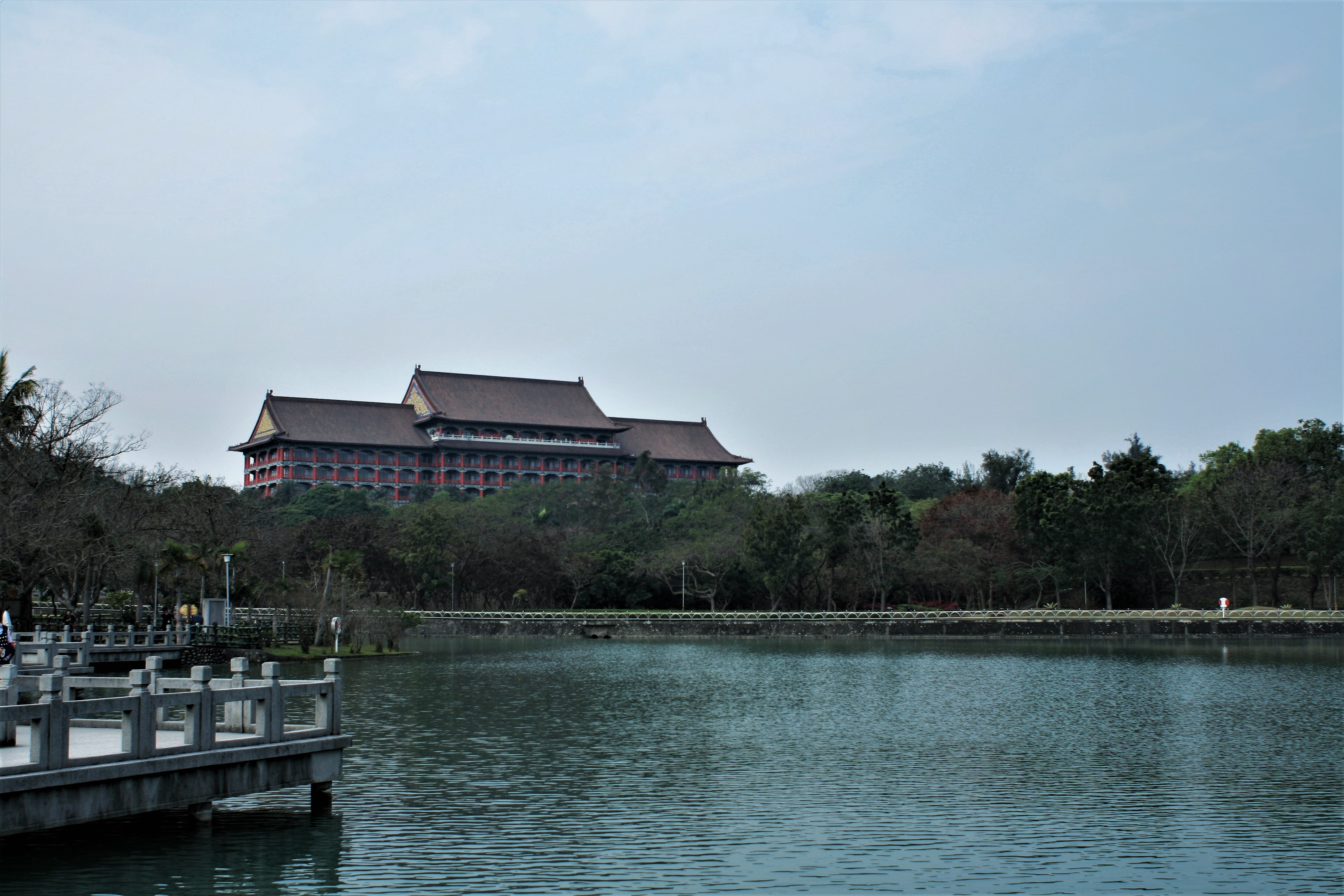 The Chengcing Lake, also known as Toapi Lake